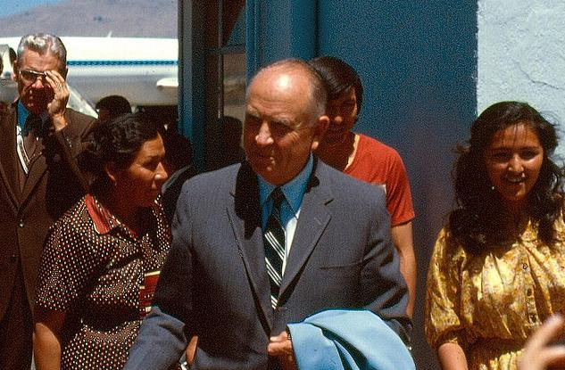 David Bruce Haight, the oldest member of the Quorum of the Twelve Apostles in the history of The Church of Jesus Christ of Latter-day Saints (LDS Church).